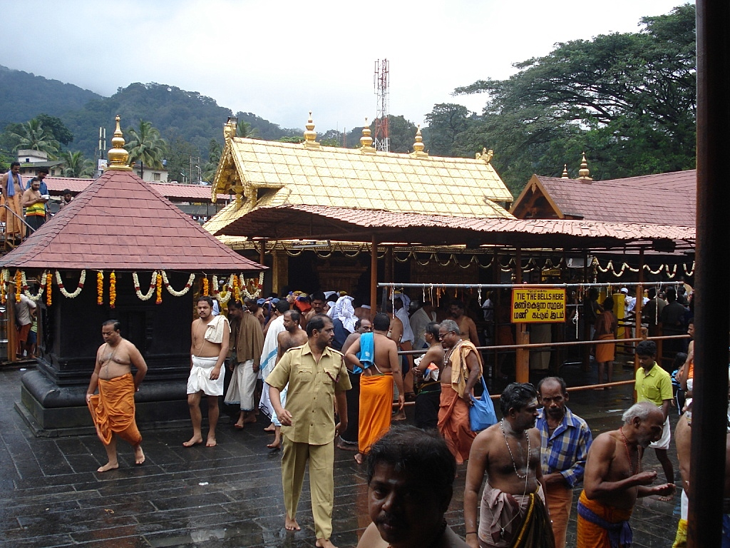 Sabarimala Temple